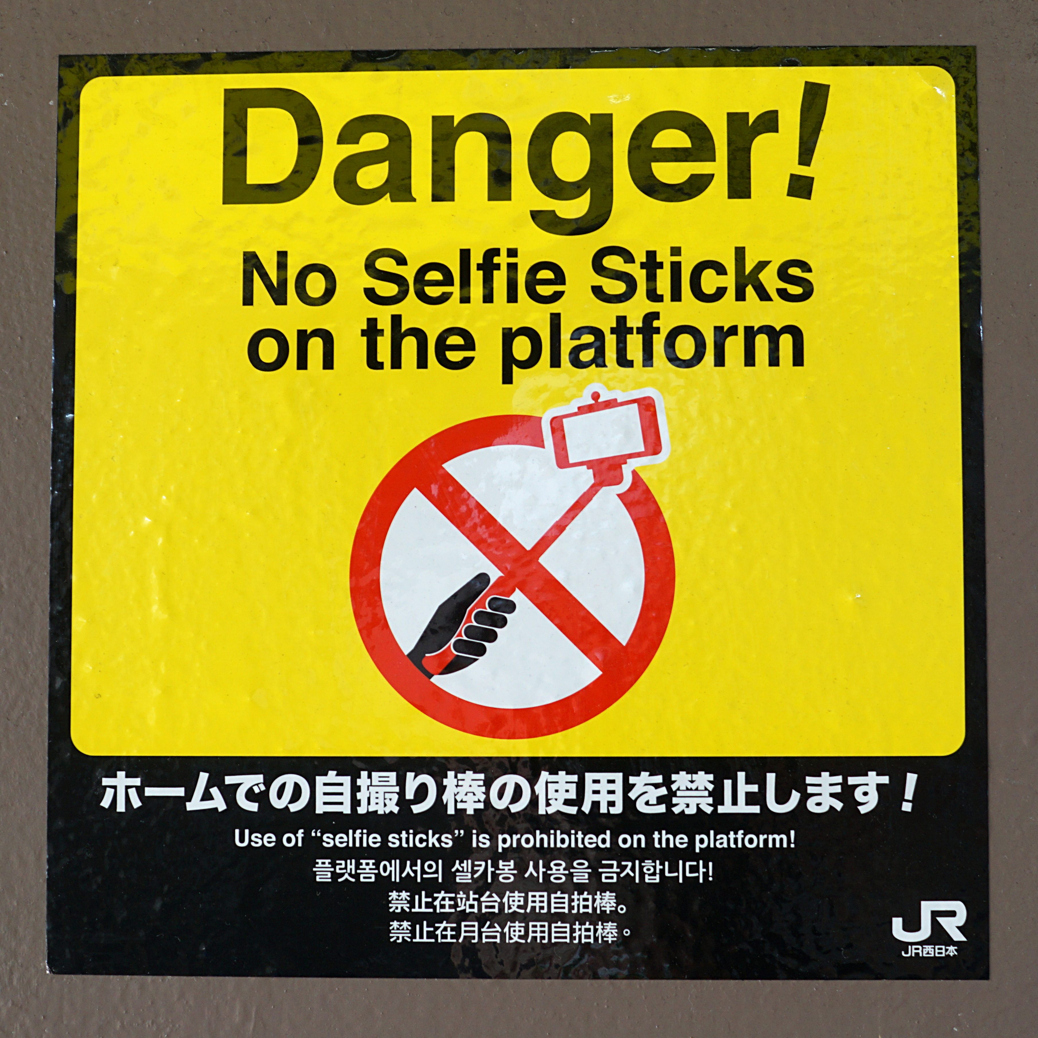 Danger! No Selfie Sticks on the platform sign at a Japan Rail station